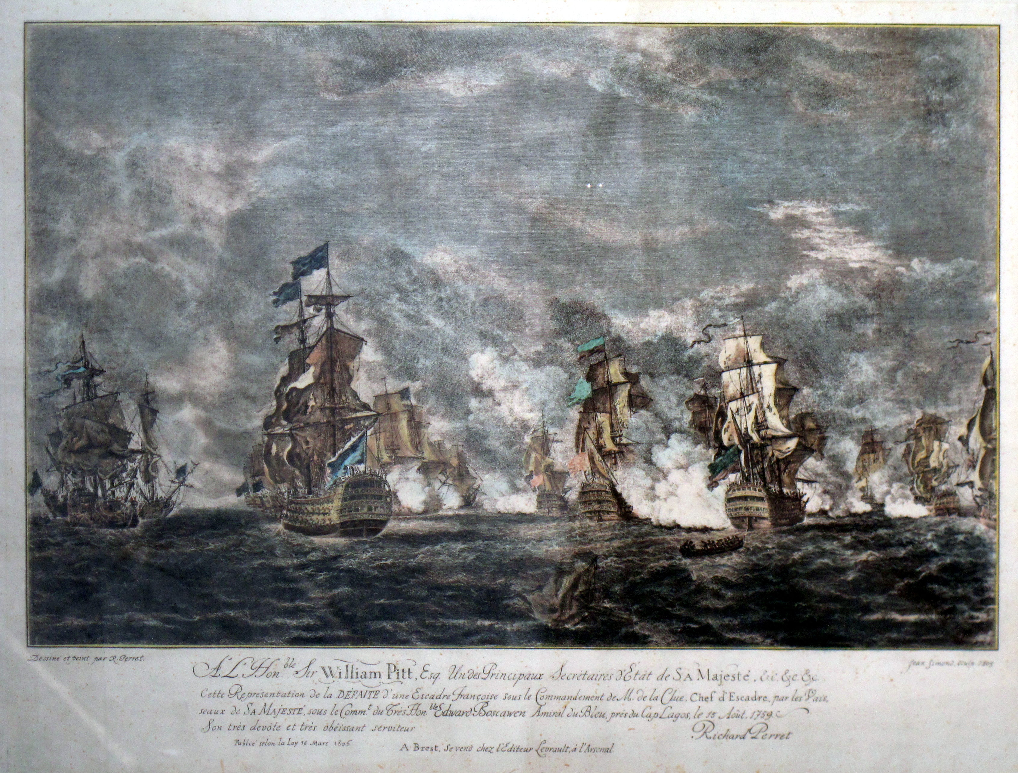 Battle of Lagos